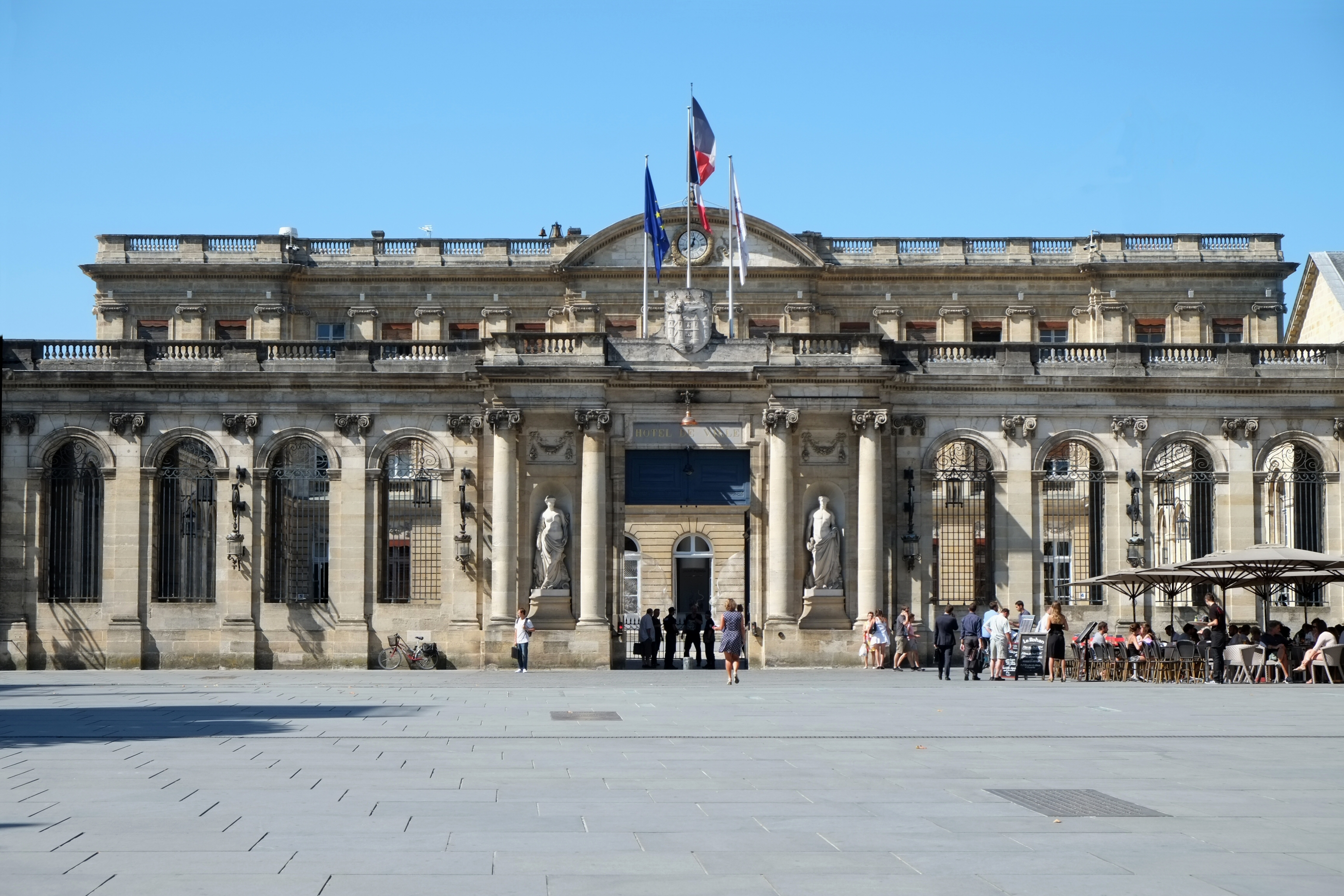 Palais Rohan, former archbishop townhouse, now city hall of Bordeaux, Gironde, France